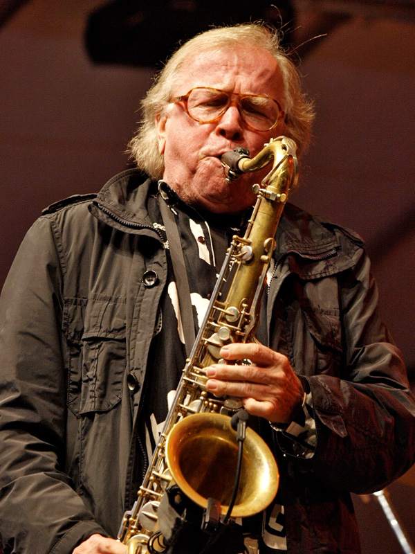 Klaus Doldinger (Passport), Offside Festival 2008, Geldern/Germany